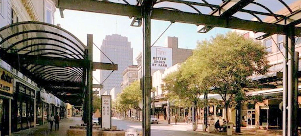 1974 - Hamilton Mall Image